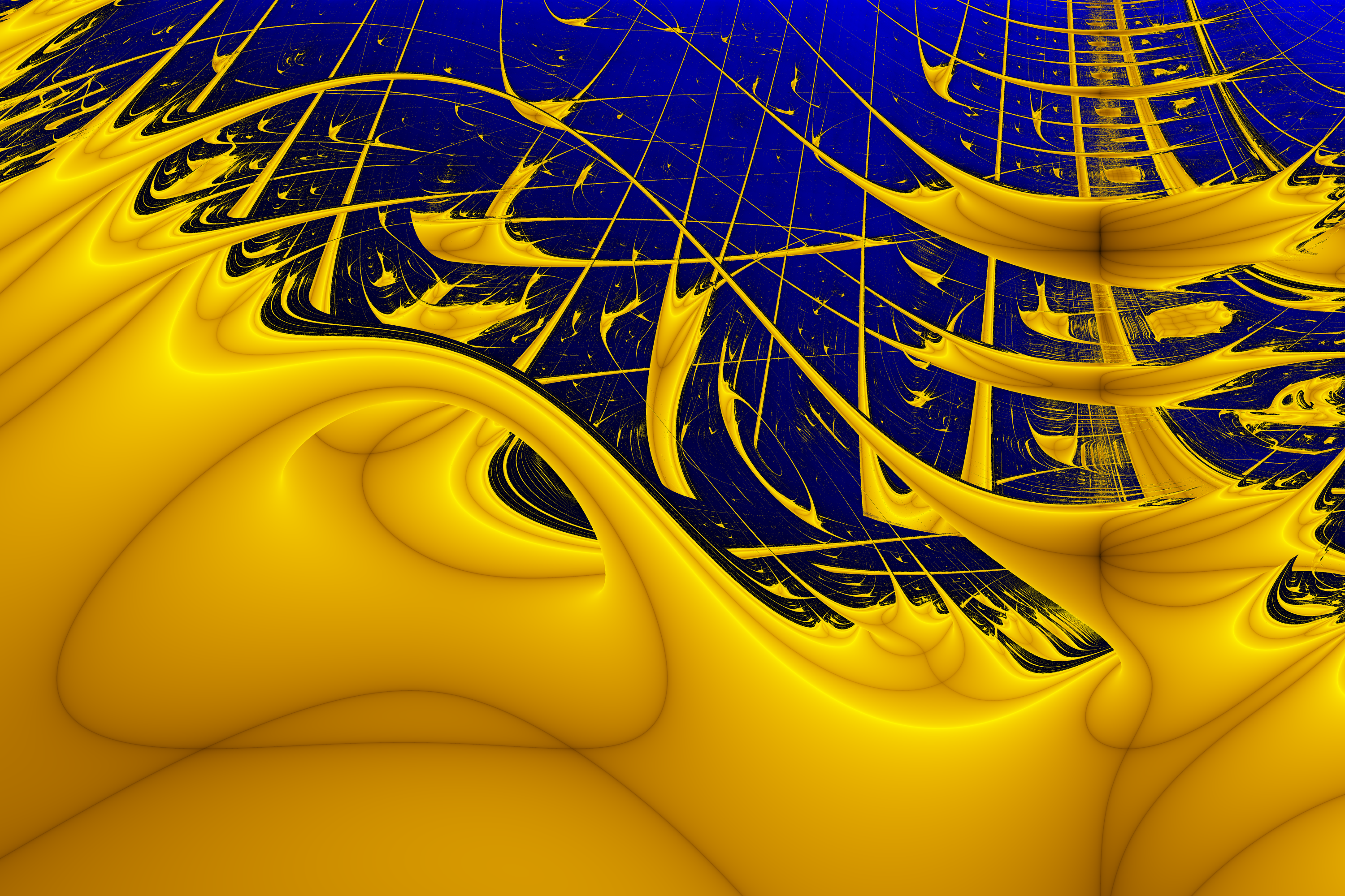 Lyapunov fractal for the string bbbbbbaaaaaa, for the growth parameter region ( a , b ) ∈ [ 2.5 , 3.4 ] × [ 3.4 , 4 ] {\displaystyle (a,b)\in [2.5,3.4]\times [3.4,4]} . Generated with Mathematica 5.